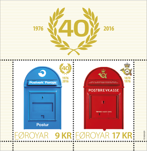 40th Anniversary 1976-2016. Blue Faroese mailbox used in the Faroe Islands since 1976. Red Danish mailbox used in the Faroe Islands before 1976.